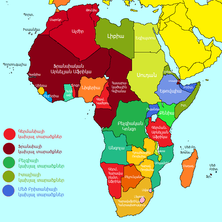 Africa in 1912